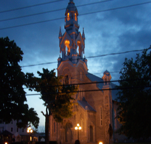 The Saint-Mathieu de Beloeil church in Beloeil, Québec, at night.